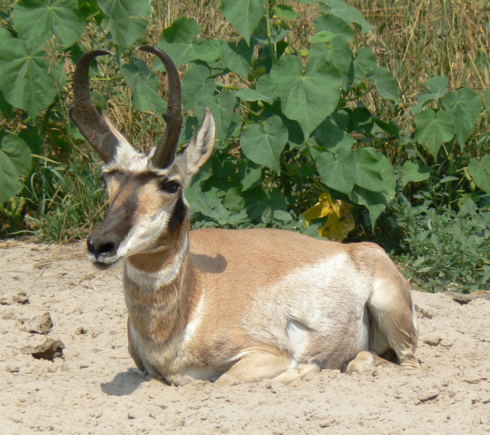 Pronghorn